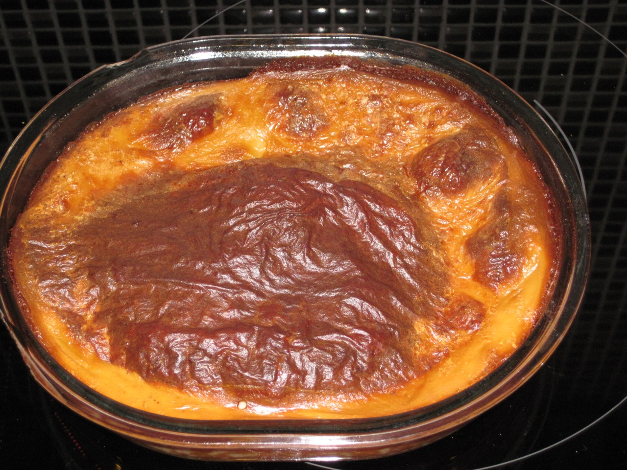 Rice Pudding baked in the oven with nutmeg sprinkled on top before baking. The ingredients are 75g pudding rice, 825ml milk and 25g of sugar. A skin forms during the baking process. It has been baked for nearly 3 hours at 140C in a fan oven.